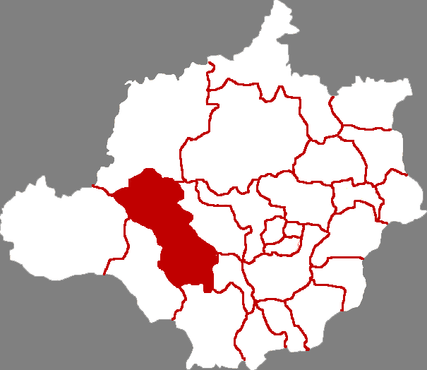 Location of Tang county in Baoding City, China